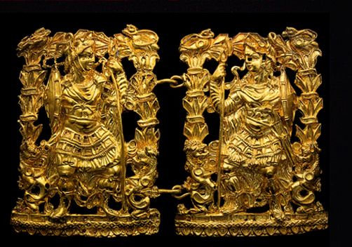 Men in arm, wearing Greek uniforms. Tillia tepe. Musee Guimet. Personal photograph 2006.